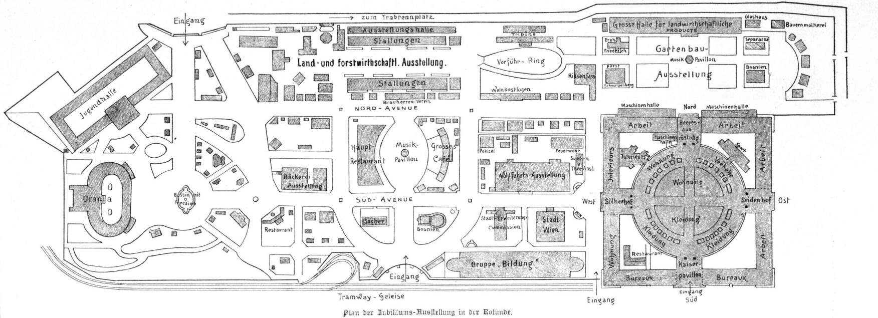 plan from the area of the jubilee expo 1898 in vienna.